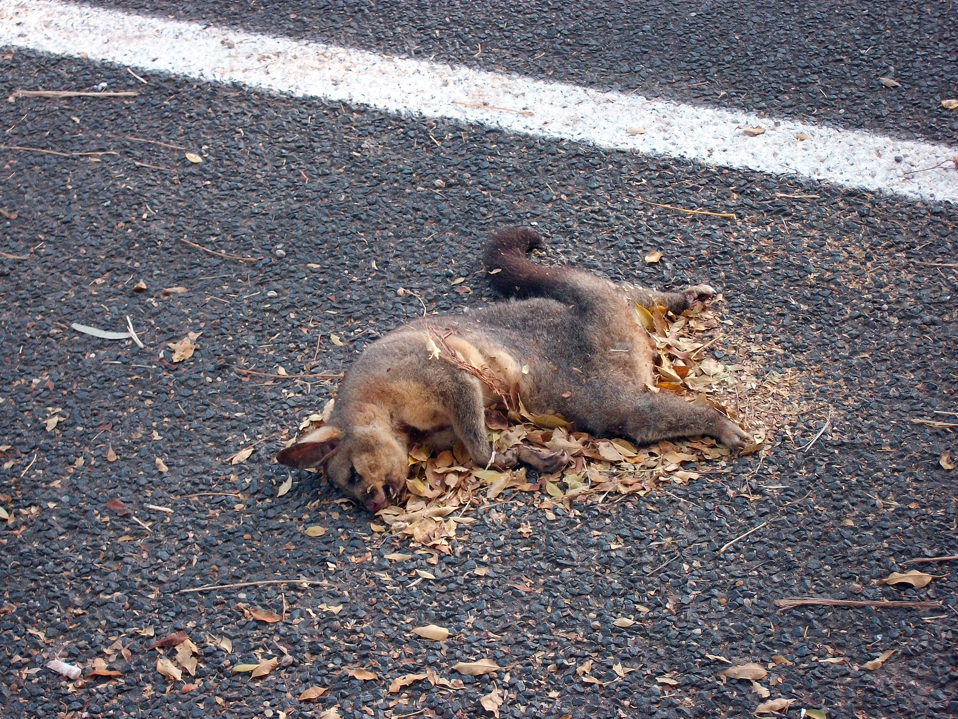 A dead Trichosurus vulpecula (Common Brushtail Possum) on the road side, likely to have died when it was hit by a vehicle.